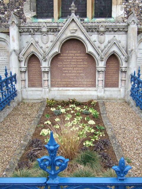 The Primrose Tomb. This is the tomb of Benjamin Disraeli and his wife Mary Anne.